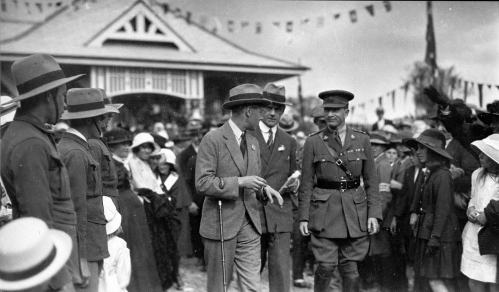 HRH Edward, Prince of Wales at Gympie on 3 August 1920 HRH Edward, Prince of Wales in the Soldiers' Memorial Park at Gympie, during his visit on Tuesday 3 August 1920. The Prince's visit was regarded as the official opening of this park which was established almost in the centre of town, as a memorial to the fallen soldiers of Gympie and Widgee districts. The Prince was presented on this occasion with a gold specimen from the No. 3 North Phoenix Mine. (Description supplied with photograph). Gympie is a city in south-eastern Queensland, situated on the Mary River about 162 kilometres north of Brisbane. Gympie is the centre of an important dairying and agricultural district. In the early days timber was a significant industry.